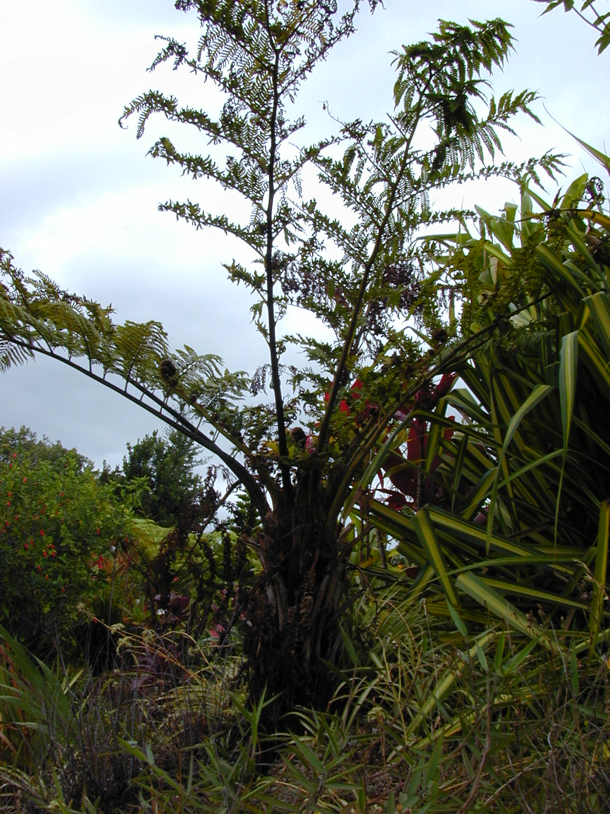 Sphaeropteris cooperi (habit). Location: Maui, Makawao